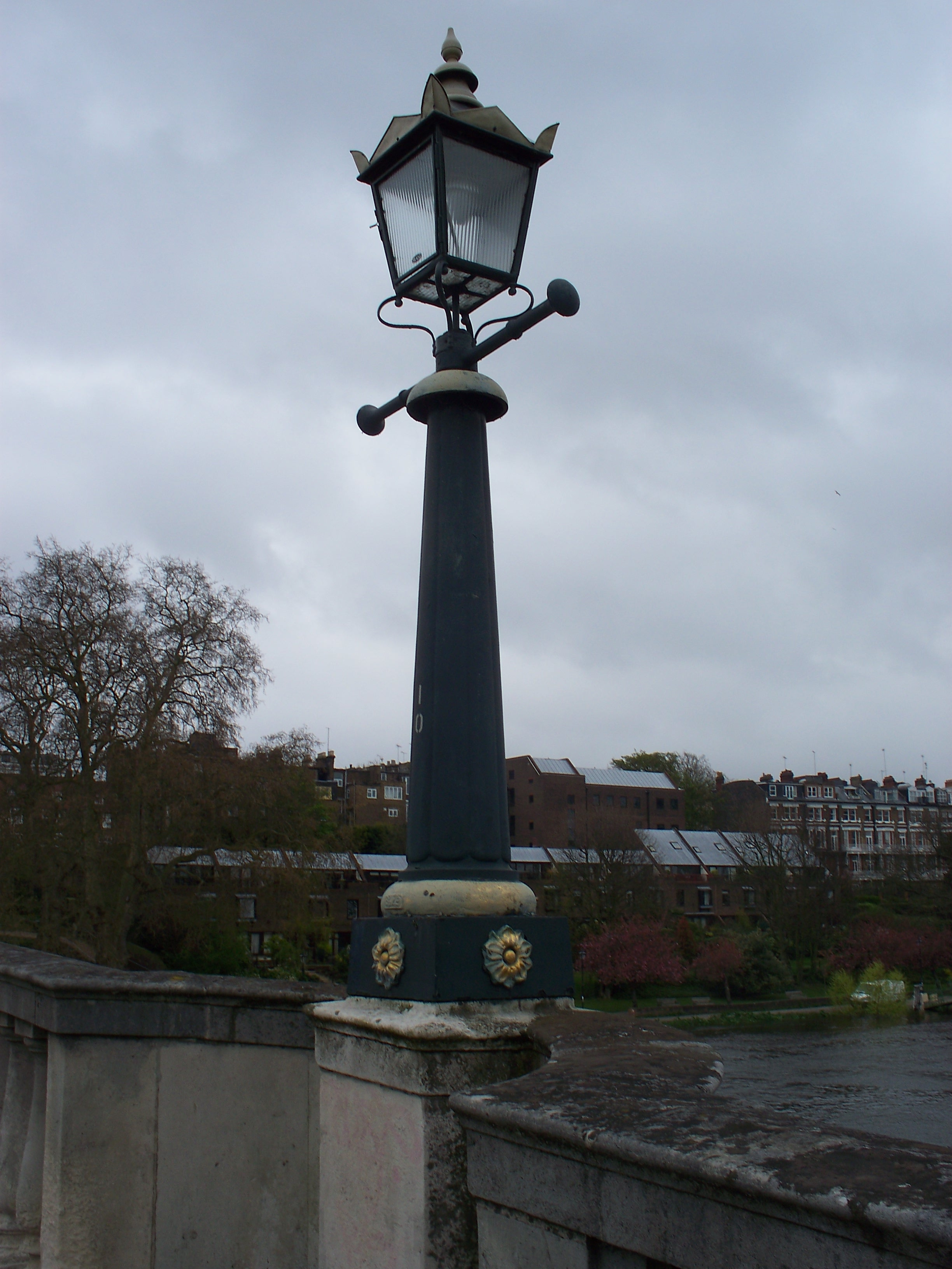 Lamppost on Richmond Bridge, Richmond, London. Photograph taken in a public location in the UK of a building on permanent public display, and exempt from copyright under Section 62 of the Copyright Designs & Patents Act 1988 ("it is not an infringement of copyright to film, photograph, broadcast or make a graphic image of a building, sculpture, models for buildings or work of artistic craftsmanship if that work is permanently situated in a public place or in premises open to the public")